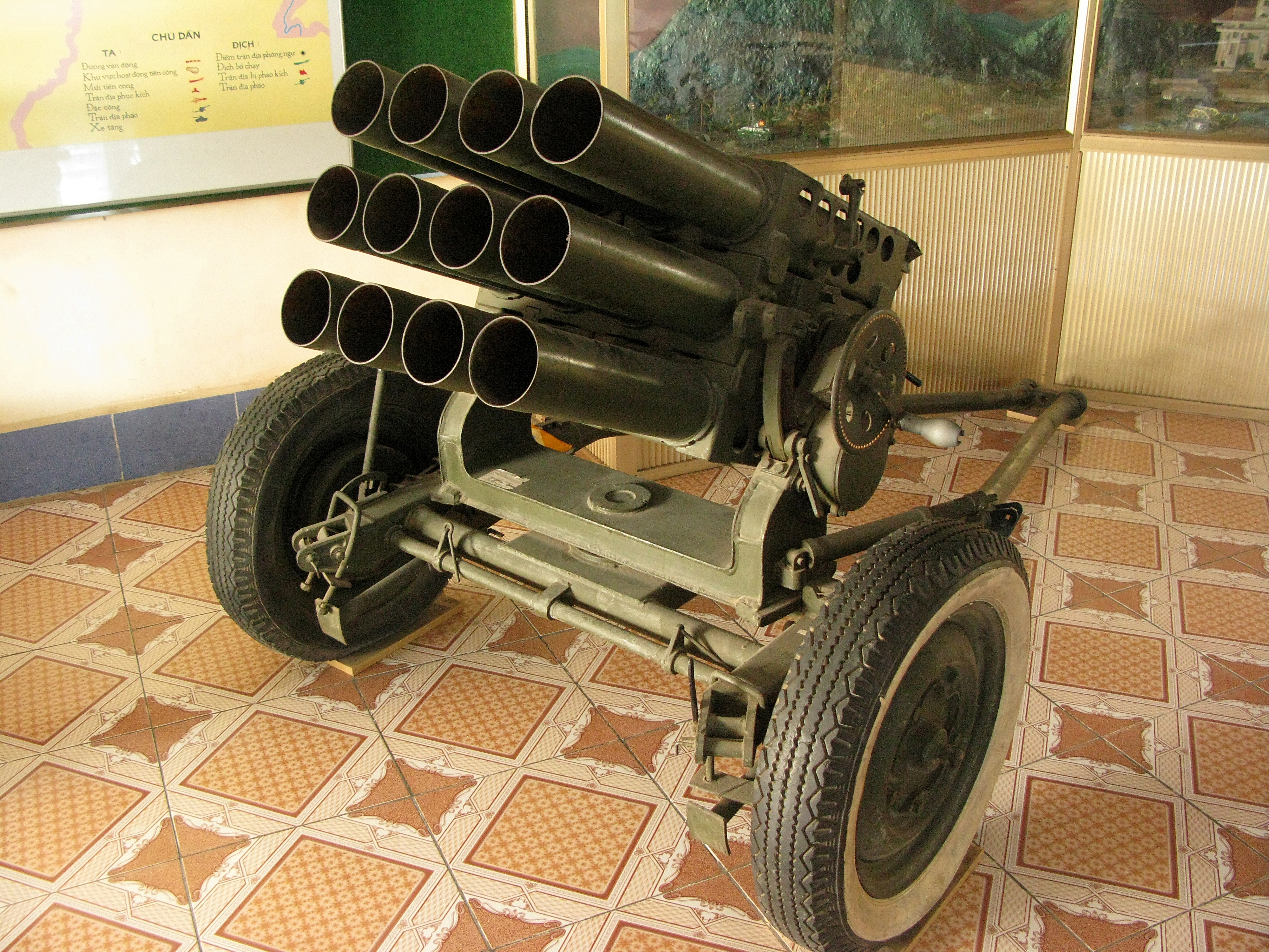 A Type 63 multiple rocket launcher (be called H12 in Vietnam) utilized by the Front Tay Nguyen of Vietnam People's Army in the combat of attacking and occupying Buon Me Thuot in the morning of 10th March 1975. It is now shown in the Museum of Ho Chi Minh Operation